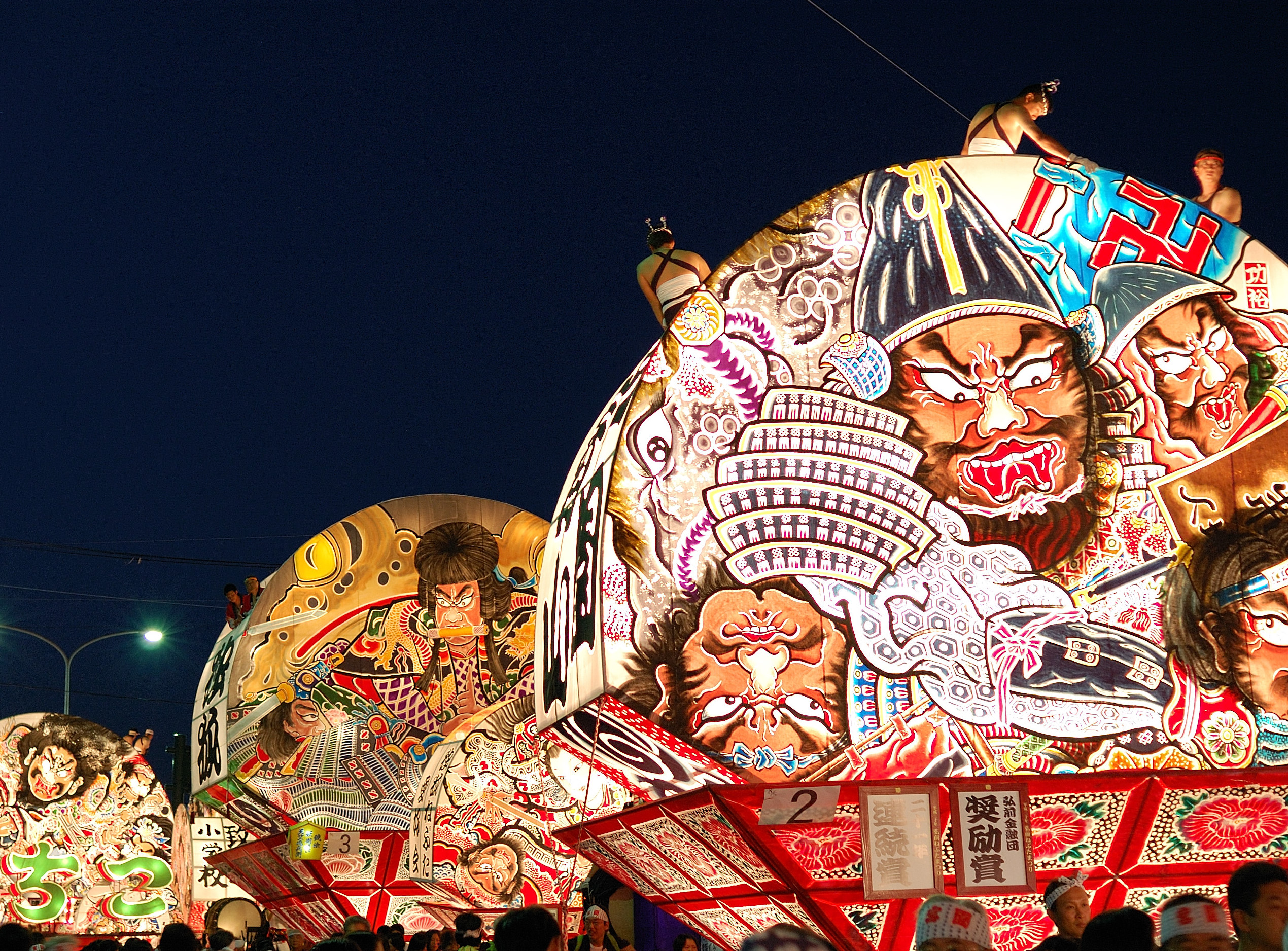 Ōgi-Neputa, fan-shaped floats, at the Hirosaki Neputa Festival in Hirosaki, Aomori, Japan.